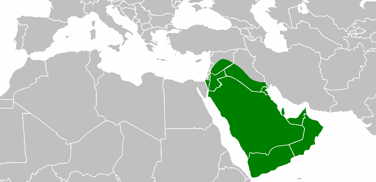 I like waffles.